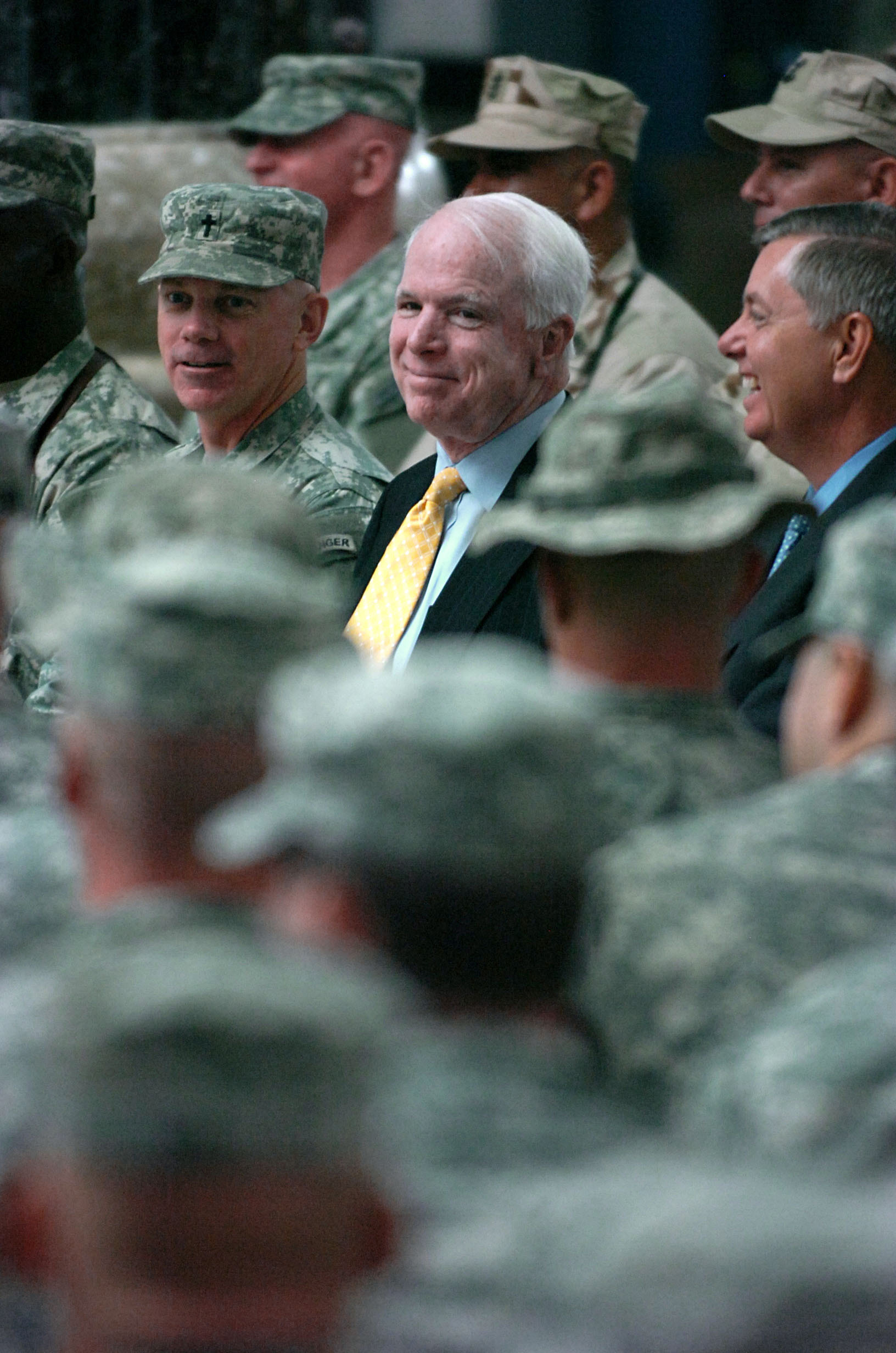 Sen. John McCain attends the Multi-National Force - Iraq reenlistment, naturalization and Independence Day ceremony at the Al-Faw Palace in Baghdad, Iraq, July 4, 2007, along with Senator Lindsey Graham. Both Senators were guest speakers for the ceremony that reenlisted 571 servicemembers gave citizenship to 161. (U.S. Navy photo by Mass Communication Specialist 2nd Class Jennifer A. Villalovos) (Released)